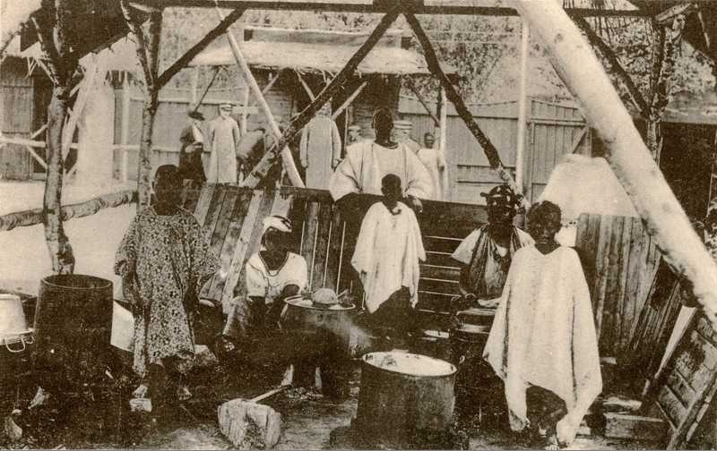 Africans exhibited at the 1914 Jubilee Exhibition in Christiania (Oslo), Norway.